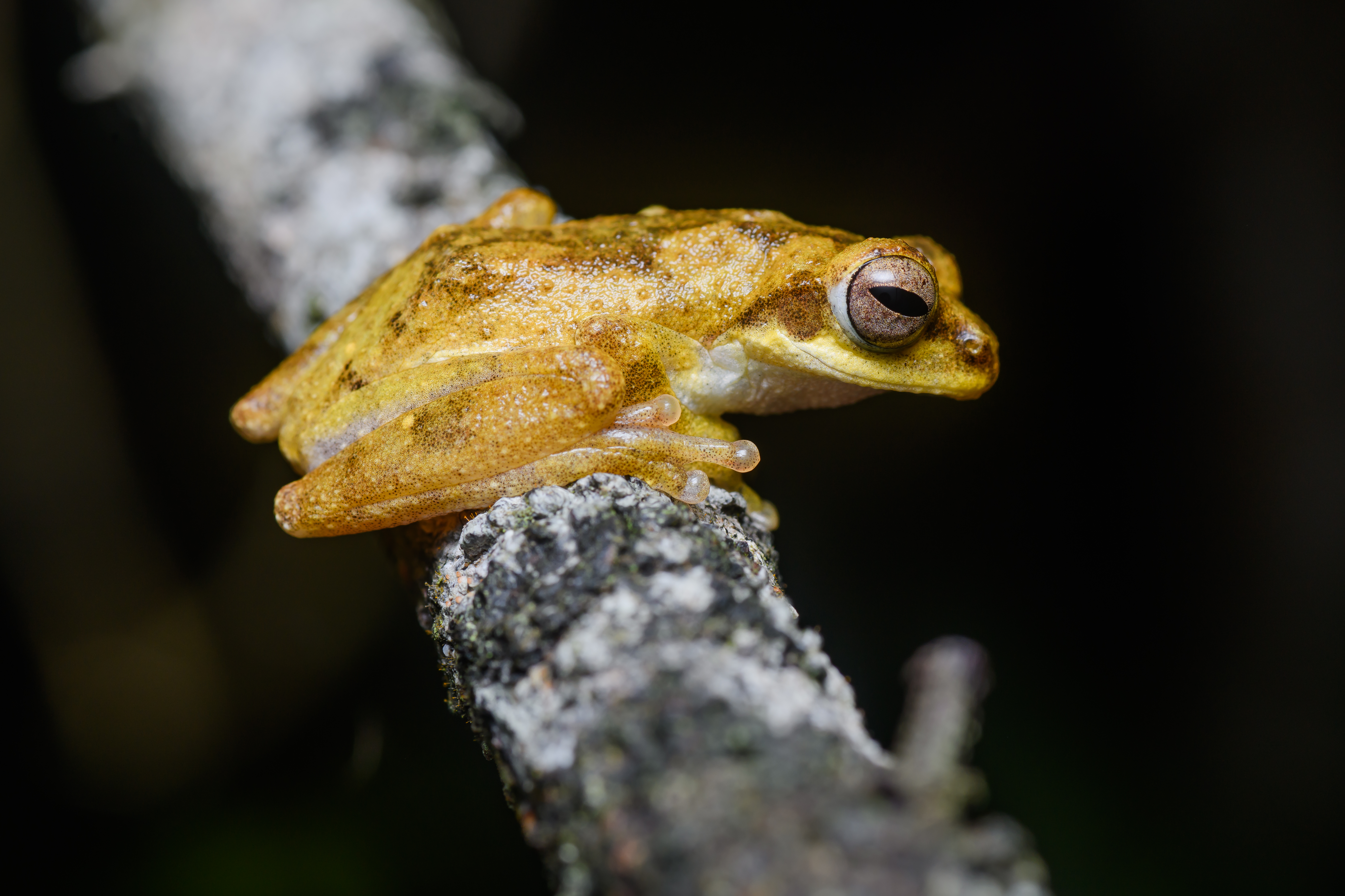 Kaeng Krachan District, Phetchaburi